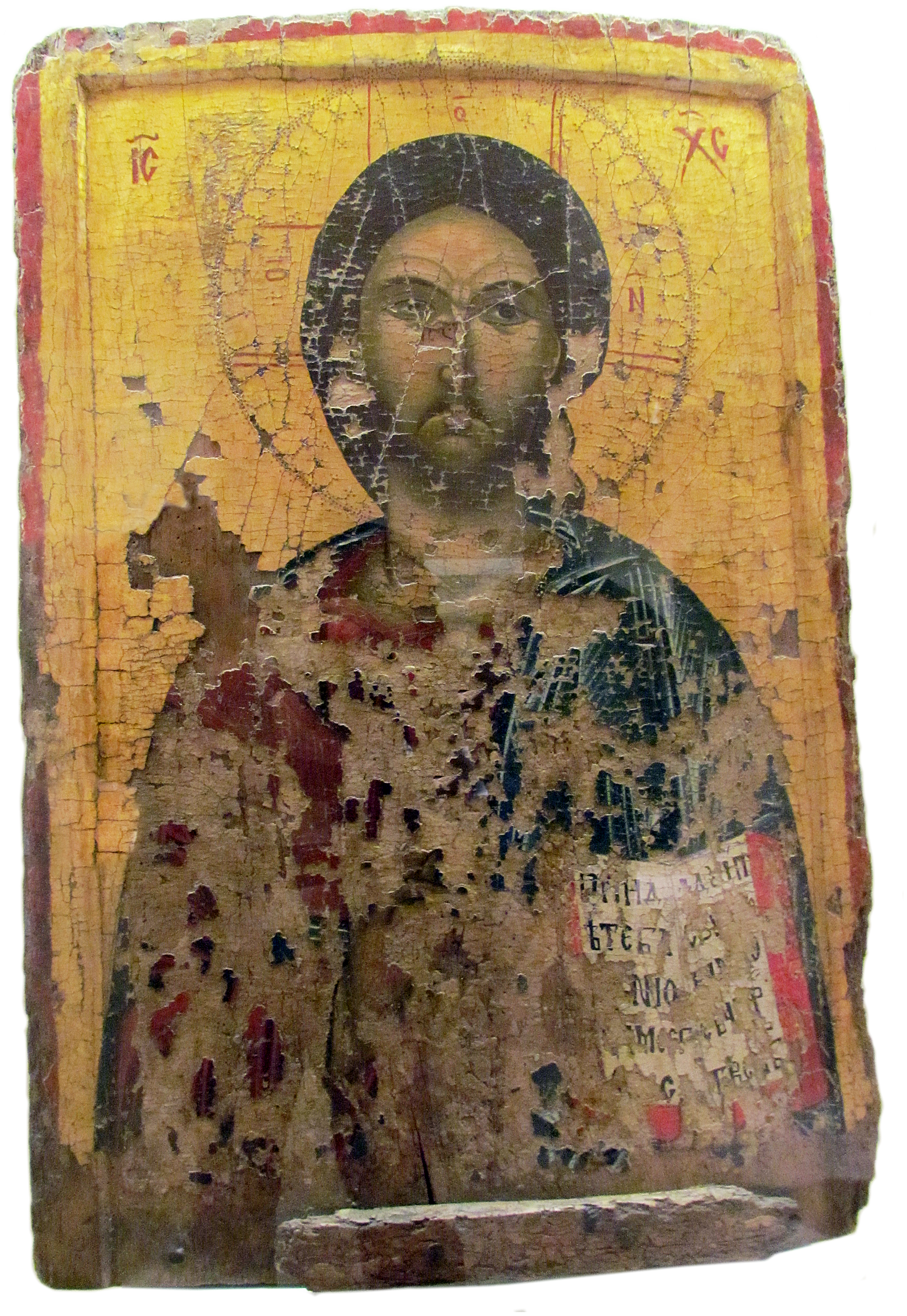 Christ Icon from the Church of St. Nicolas in Čabić near Klina, second half of 16th c.